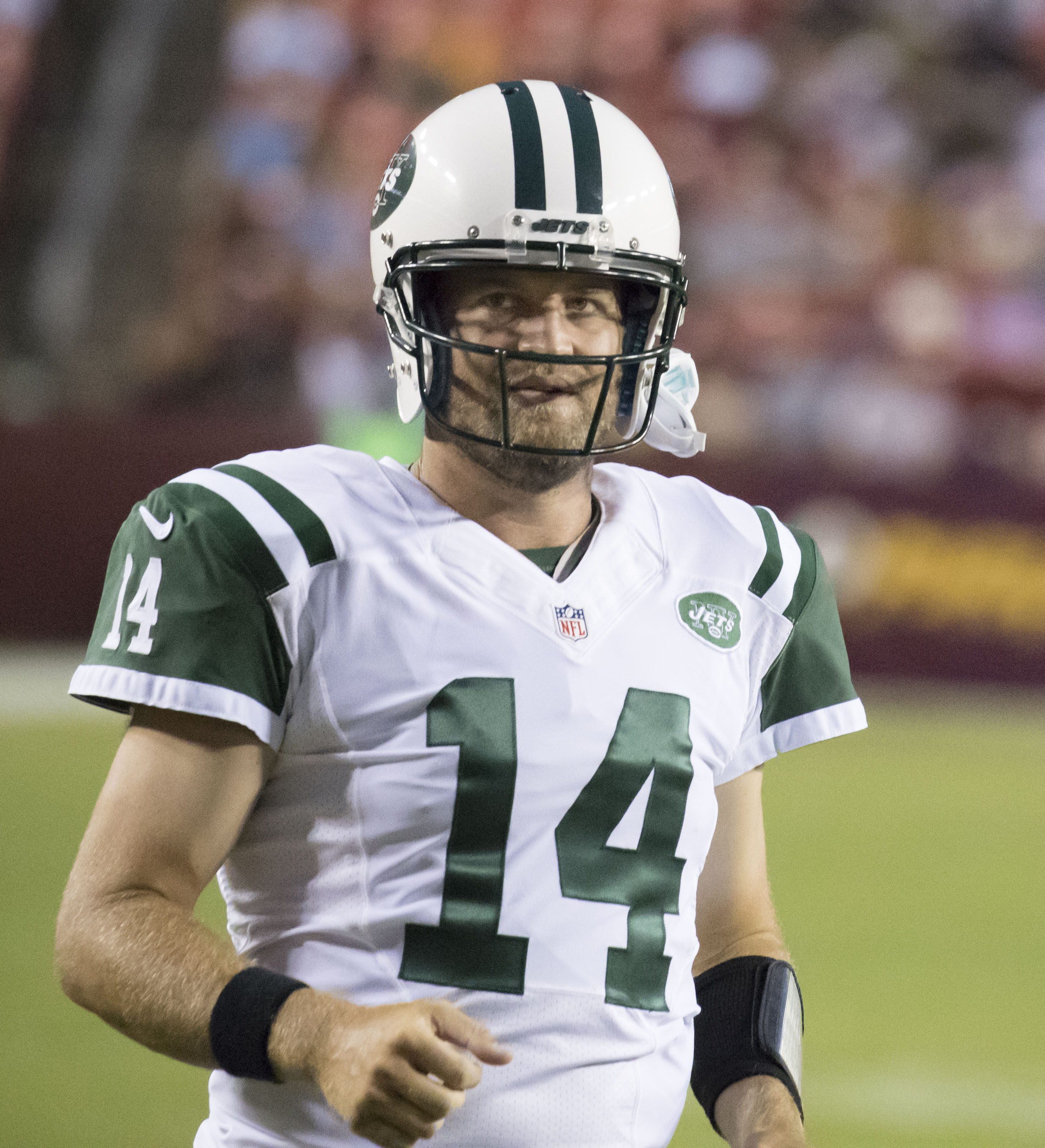 Jets at Redskins 8/19/16